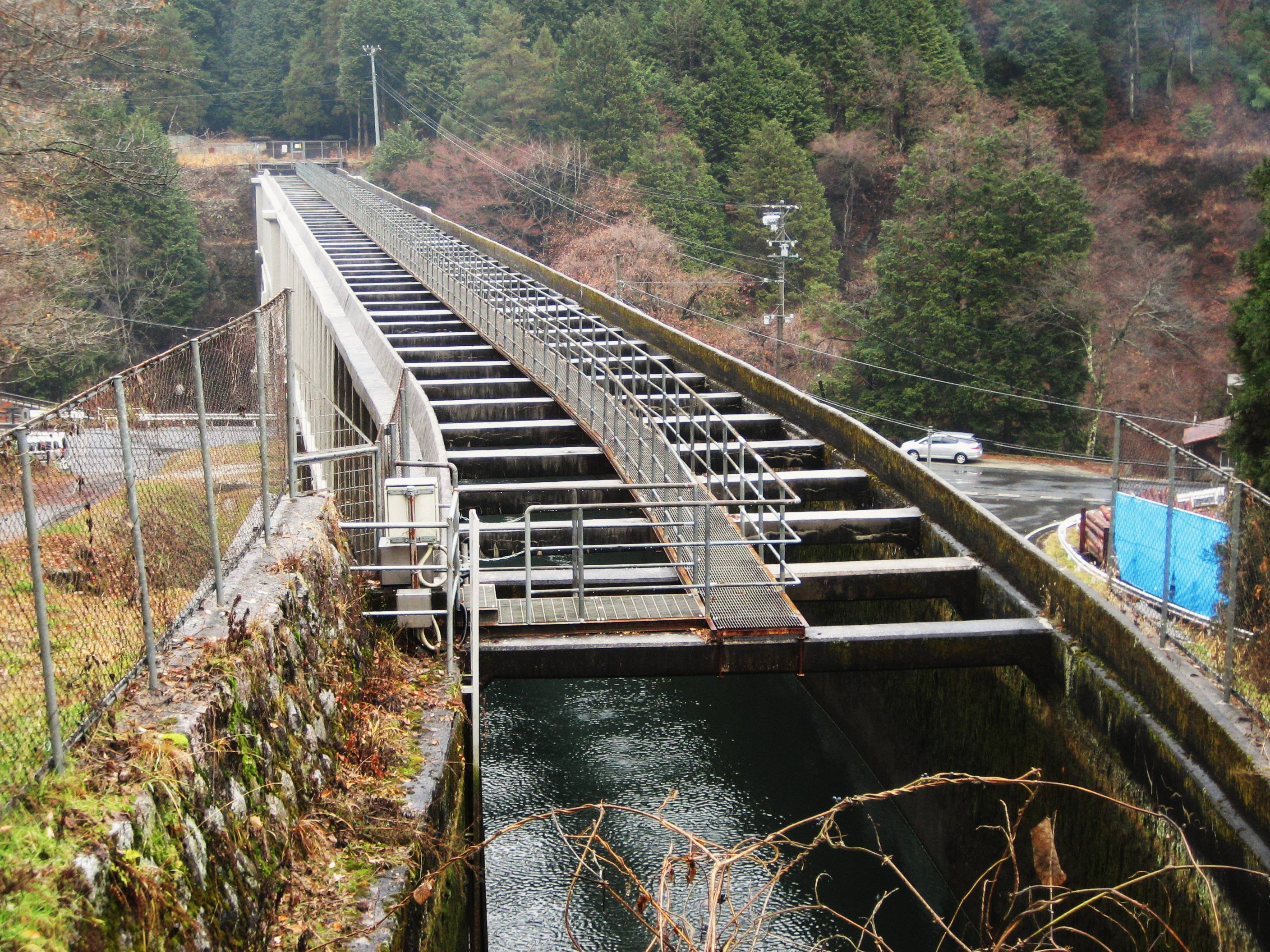 Kakizore aqueduct (柿其水路橋) in Nagiso village, Nagano prefecture, Japan. Kansai Electric Power Company manages it, a part of Yomikaki power station (読書発電所).